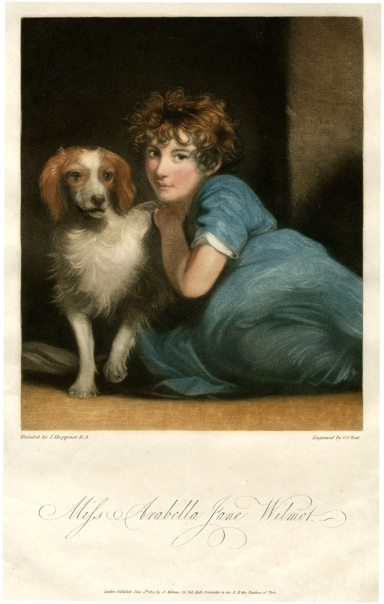 Arabella Jane (Wilmont) Sullivan (1796–1839), British novelist